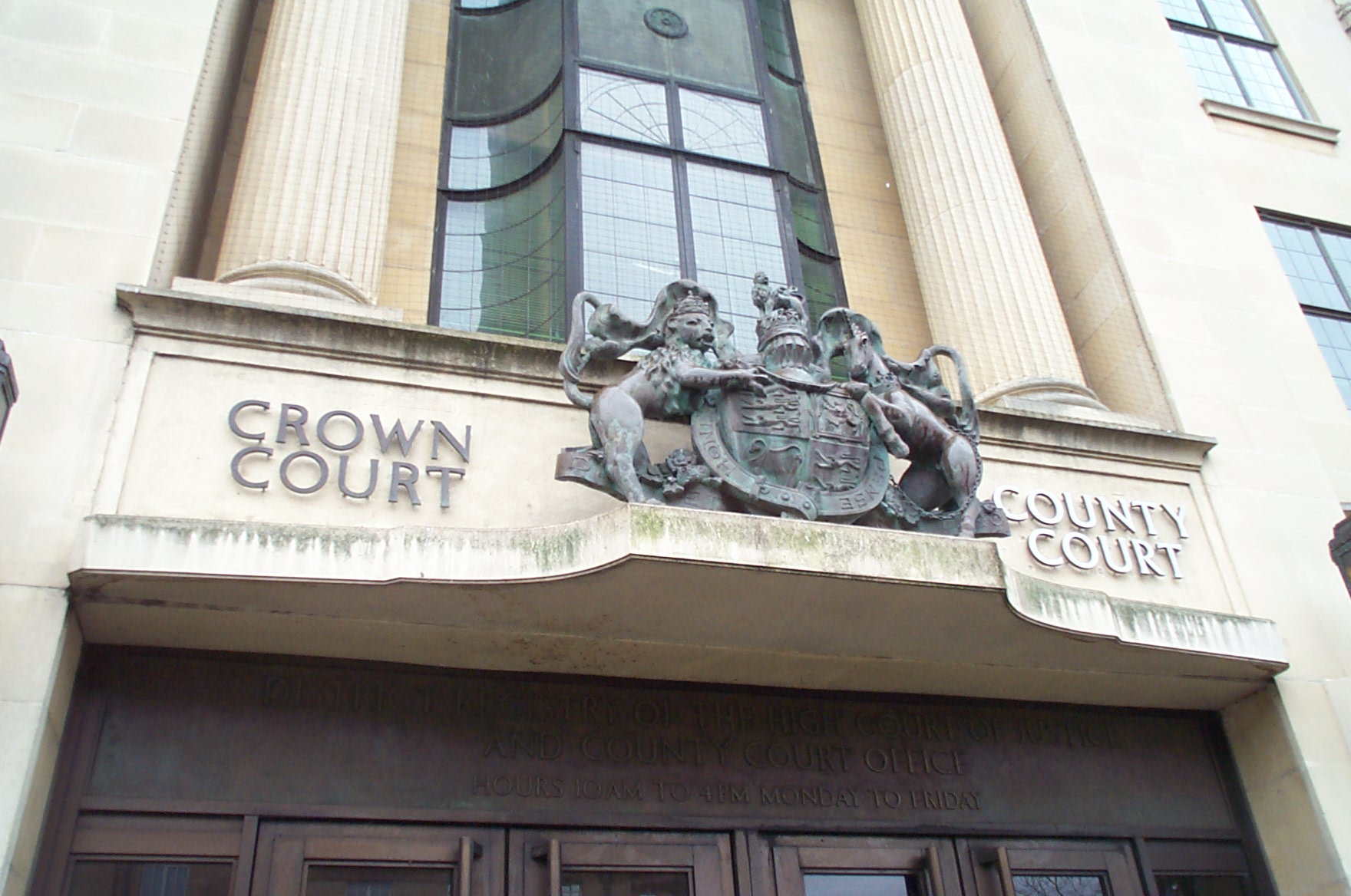 Arms over the entrance to the Crown Court and County Court in St Aldates', Oxford. Photograph taken 2006-03-25. Copyright © 2006 Kaihsu Tai.